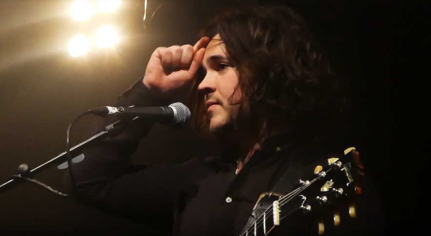 Amber Run at Live Rock City Nottingham 2017